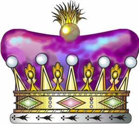 Earls crown (full) autor: Tomasz Steifer, Gdansk, 2006